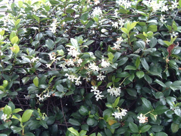 The Star Jasmine, Confederate Jasmine or Trader's Compass (Trachelospermum jasminoides).